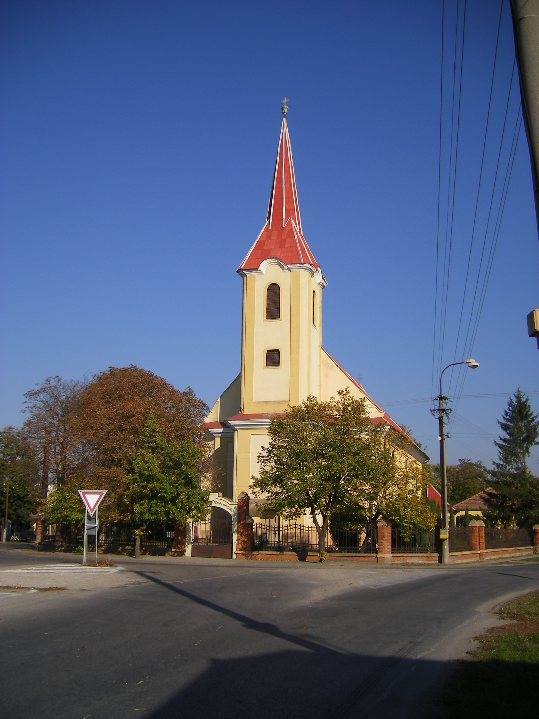 Nesvady (Komárno district), roman catholic church